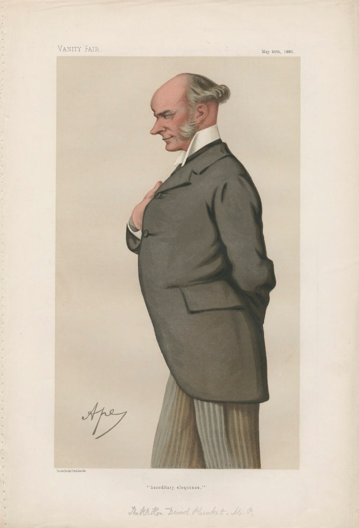 Caricature of The Rt Hon DR Plunket MP. Caption read "hereditary eloquence".